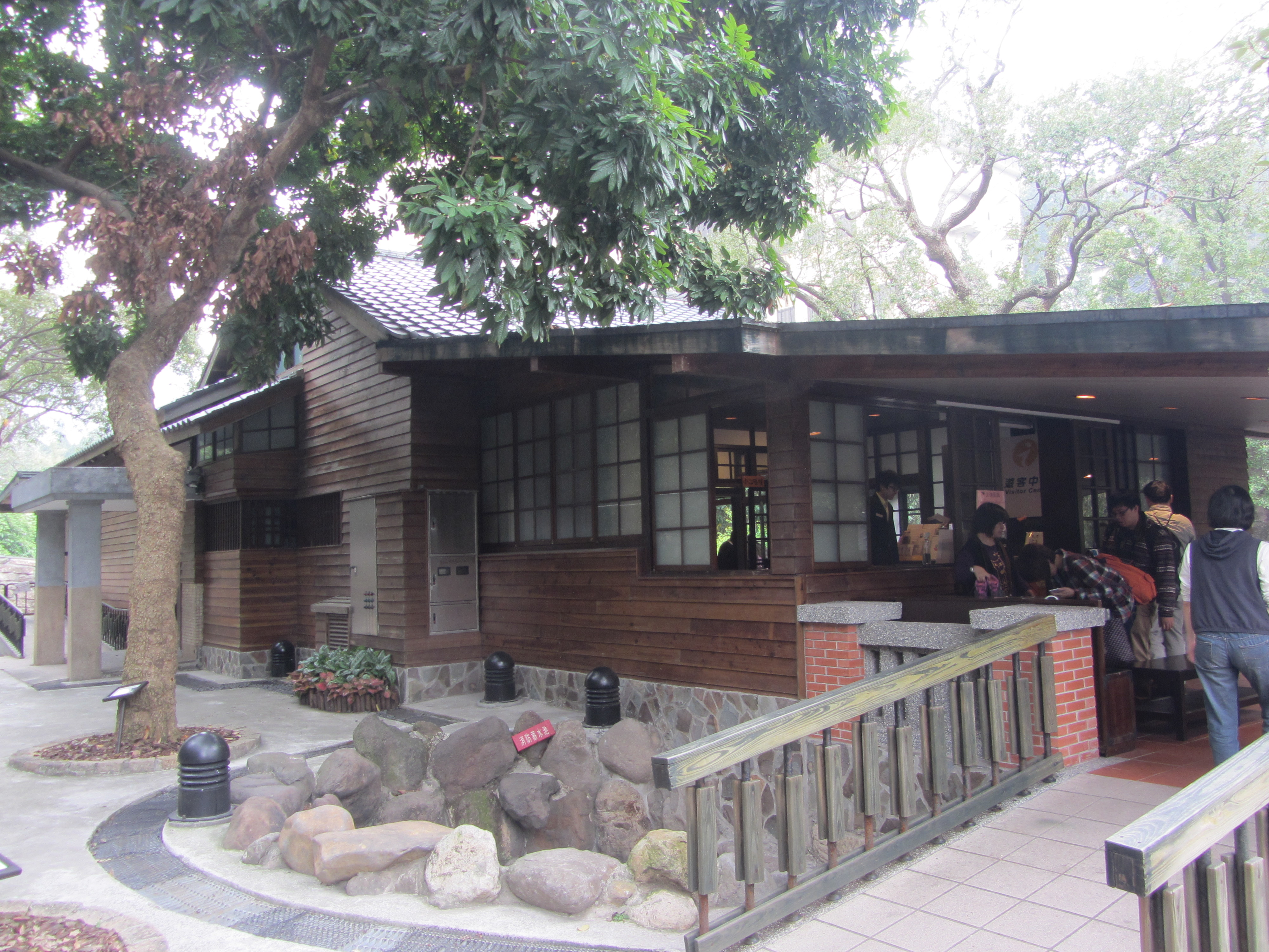 Beitou Plum Garden中文（台灣）: 北投梅庭